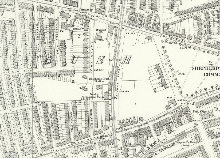 Ordnance Survey map showing Shepherd's Bush station on the Metropolitan Railway. Original map scale: 25 inches to One Mile/880 feet to One Inch.